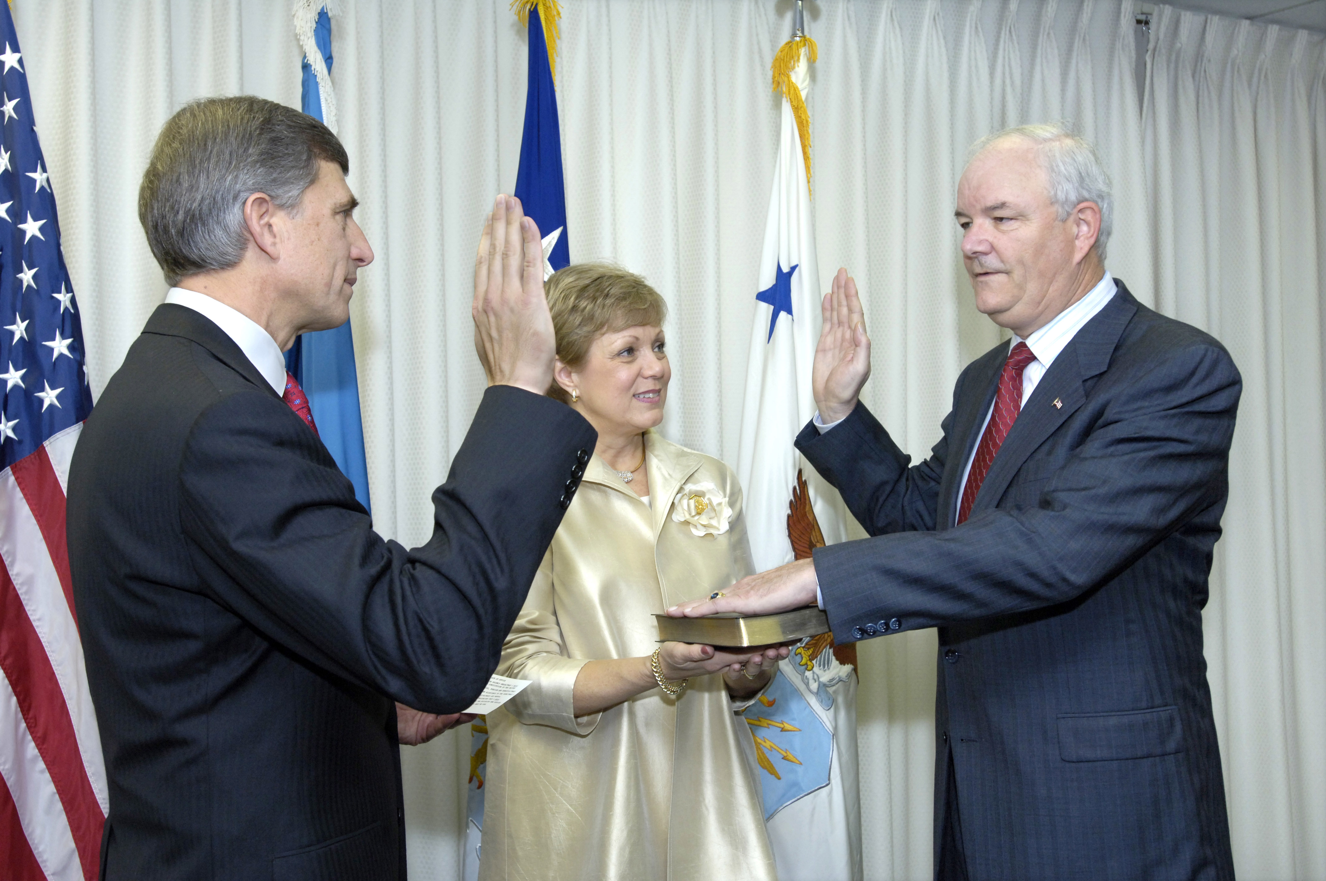 Michael W. Wynne (right) takes the oath of office as the 21st Secretary of the Air Force during a ceremony in the Pentagon on Nov. 28, 2005. Administering the oath is Under Secretary of the Air Force Ronald M. Sega (left) and holding the Bible is Barbara Wynne.